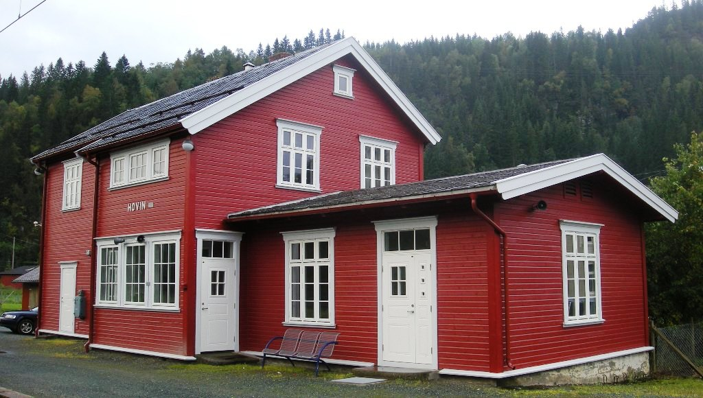 Hovin station on the Dovre and Røros lines (Sør-Trøndelag, Norway)